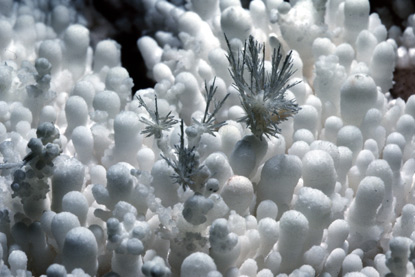 Cave popcorn with frost